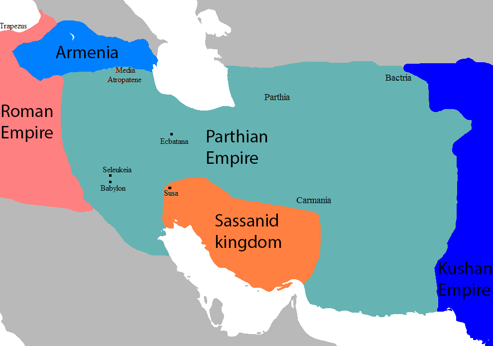 Map of the Sassanid and Parthian borders before the Battle of Hormizdegan